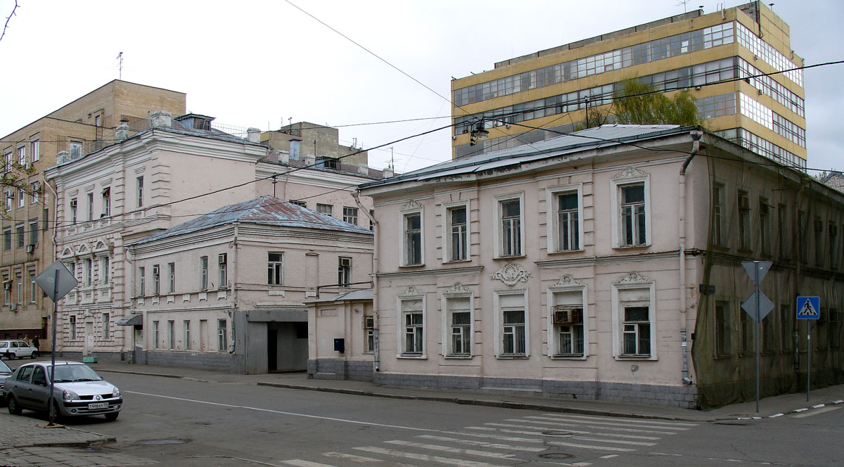 Bakhrusnina Street, Moscow - the former Alekseevs' estate, demolished 2010.